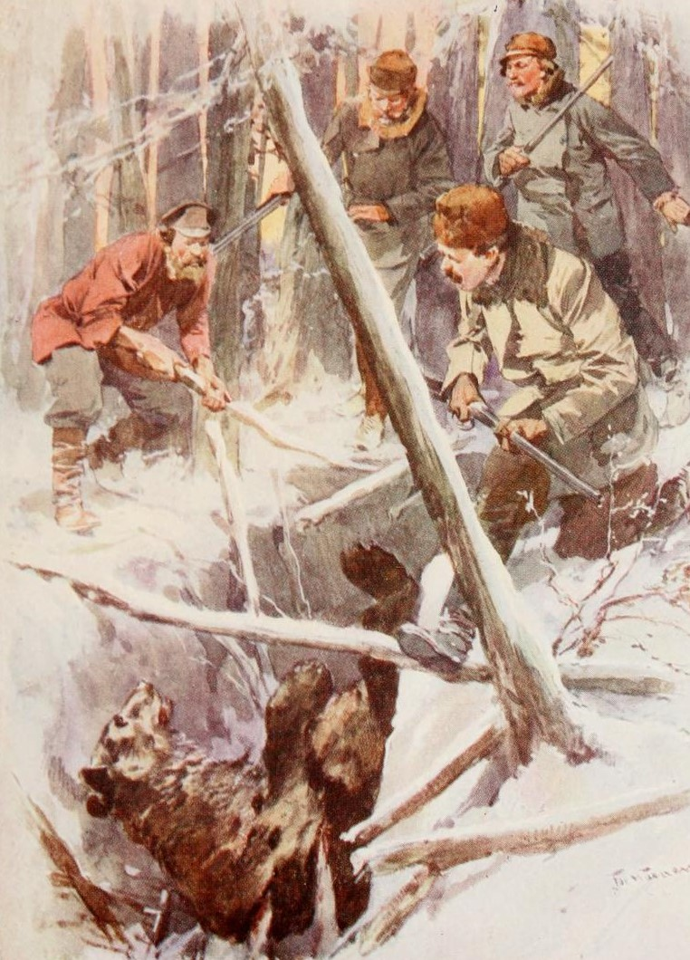 A bear trap, c. 1913. Painted by Frédéric de Haenen